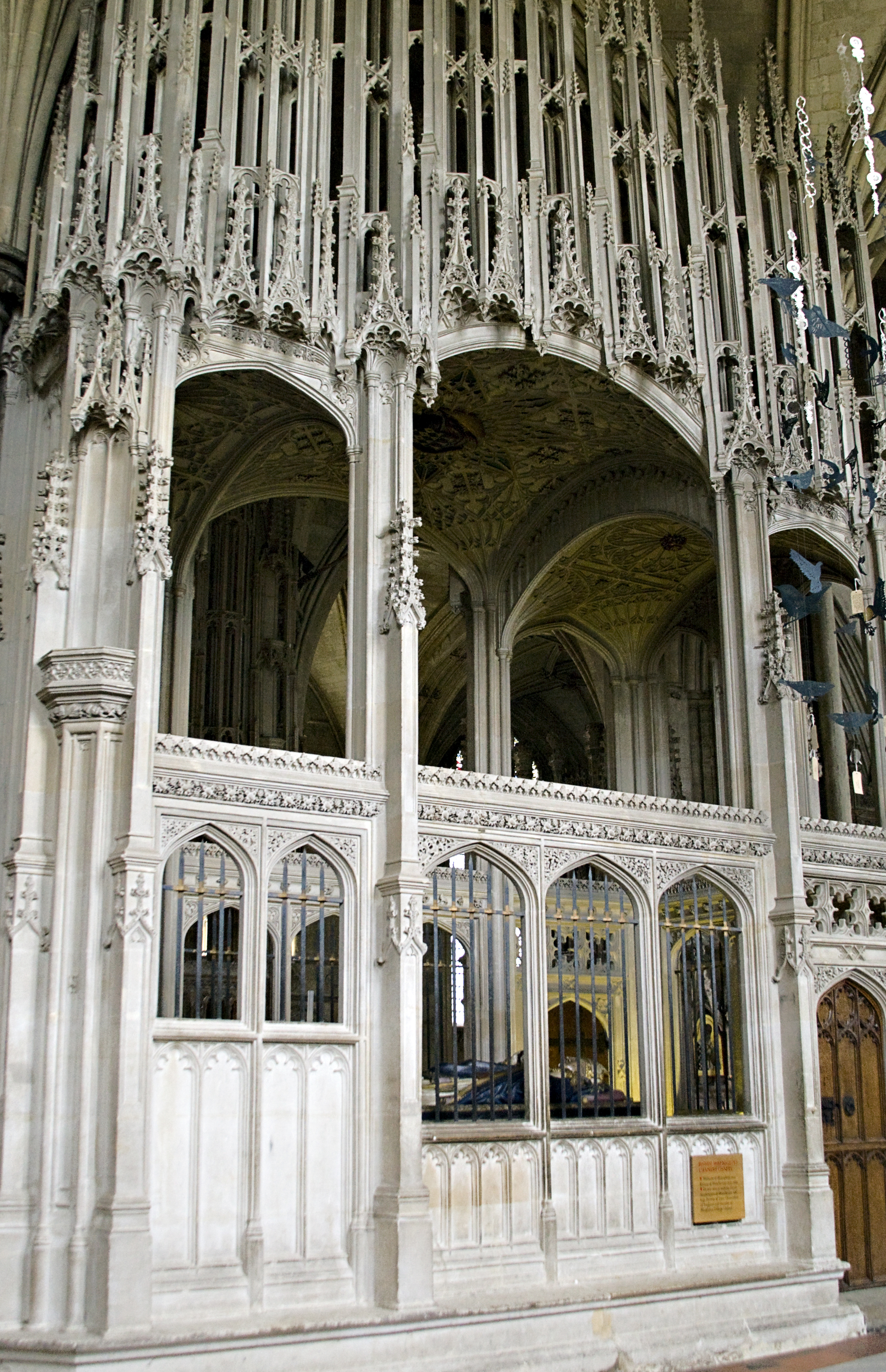 The chantry-tomb of William Waynflete, Bishop of Winchester, in Winchester Cathedral